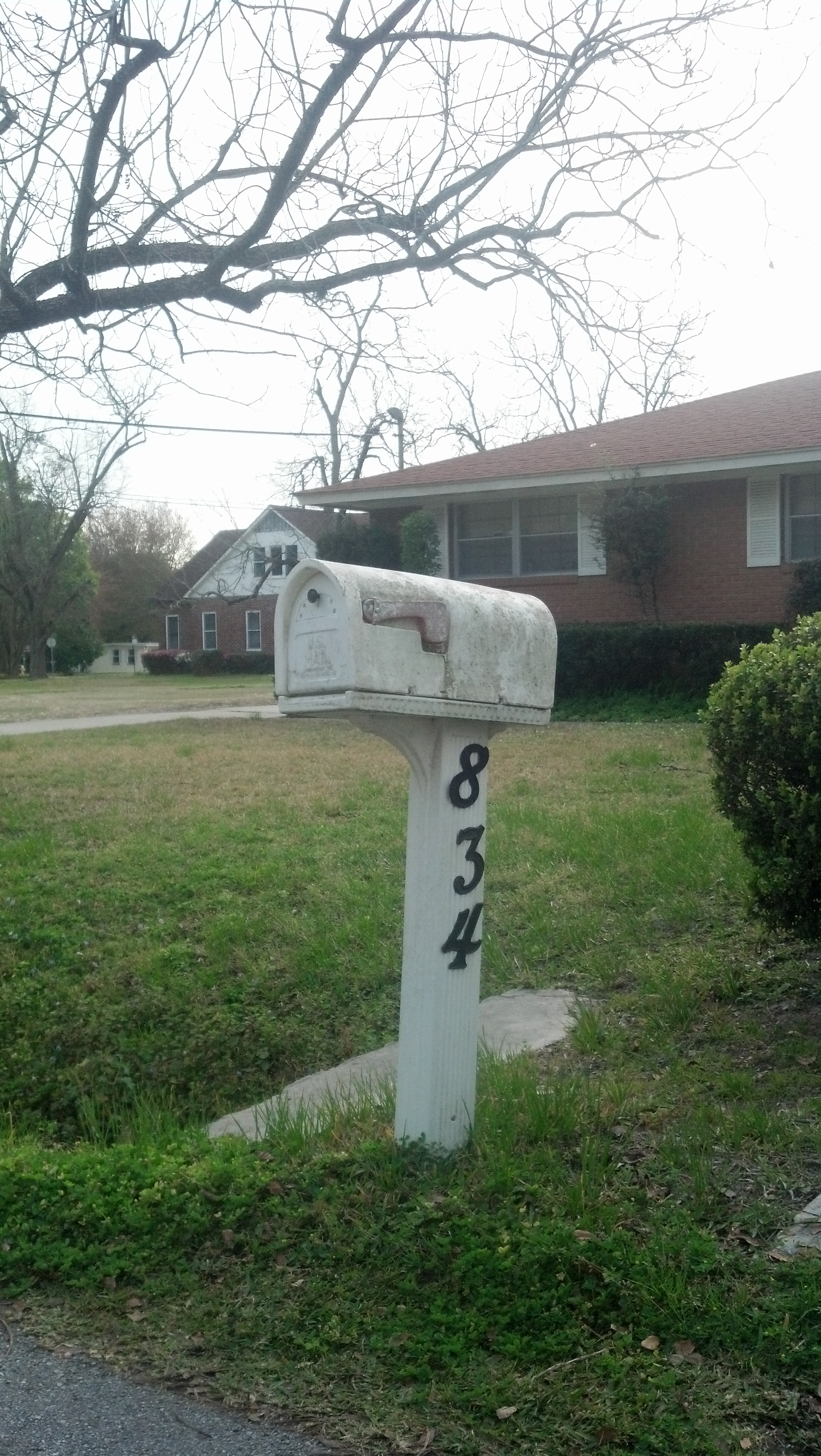 A plastic mailbox in Jacksonville, Florida. Photo by Anthony M. Inswasty